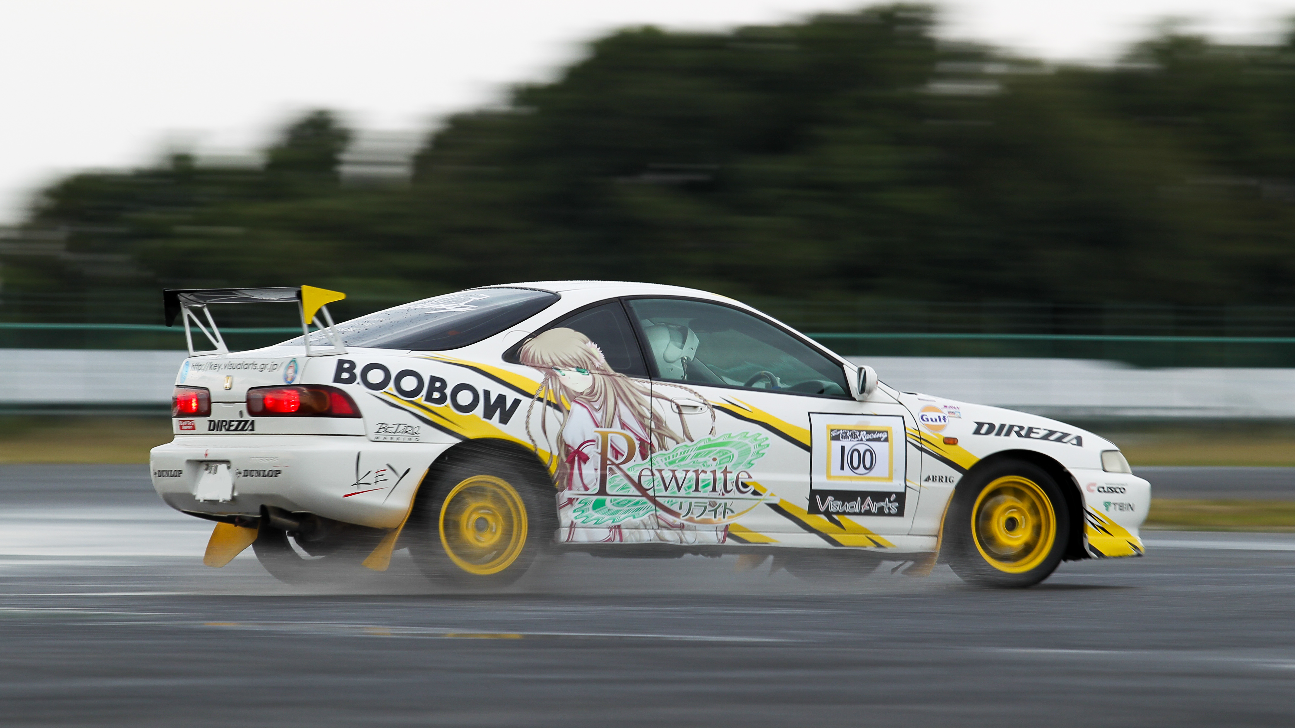 Itasha of Kanbe Kotori from Rewrite. 11th Team Itasha Racing in 2013.